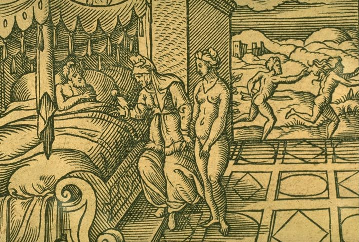 Myrrha and Cinyras. Engraving by Virgil Solis for Ovid's Metamorphoses Book X, 298-475.